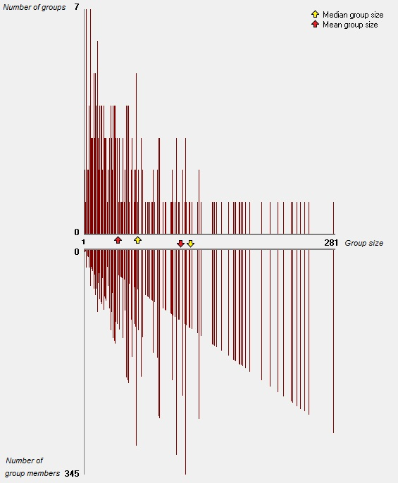 Colony size measures for Rooks breeding in Normany. The distribution of colonies (vertical axis above) and the distribution of individuals (vertical axis below) across the size classes of colonies (horizontal axis). The number of individuals is given in pairs.